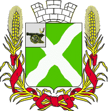 Coat of arms of Yukchnov (1859-1863)